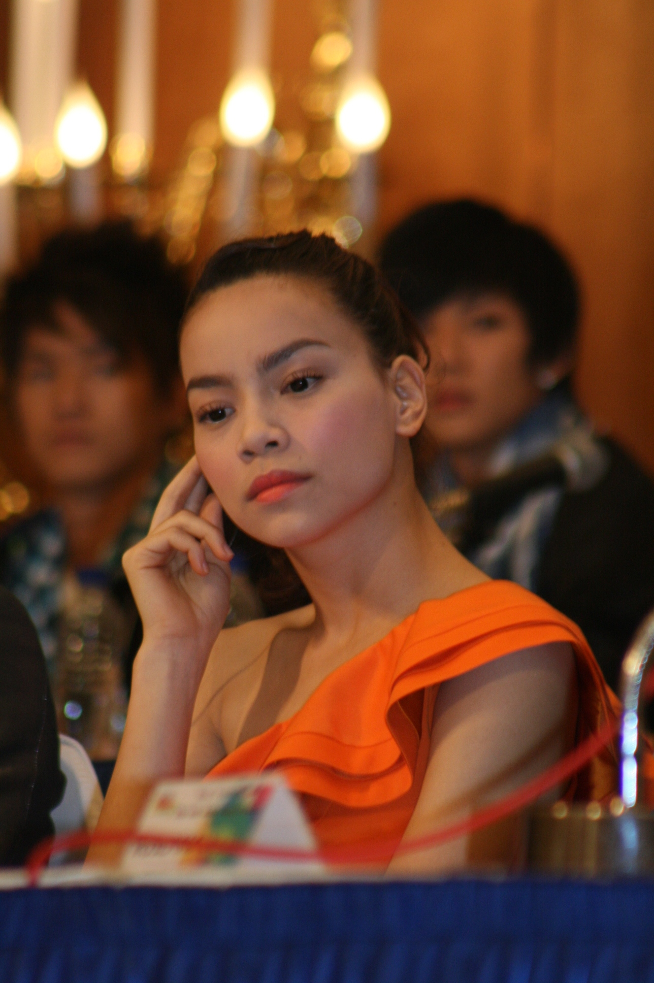 Ho Ngoc Ha at the 2009 Asia Song Festival 2